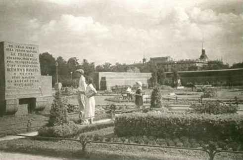 Saint Petersburg (Russia), Field of Mars.